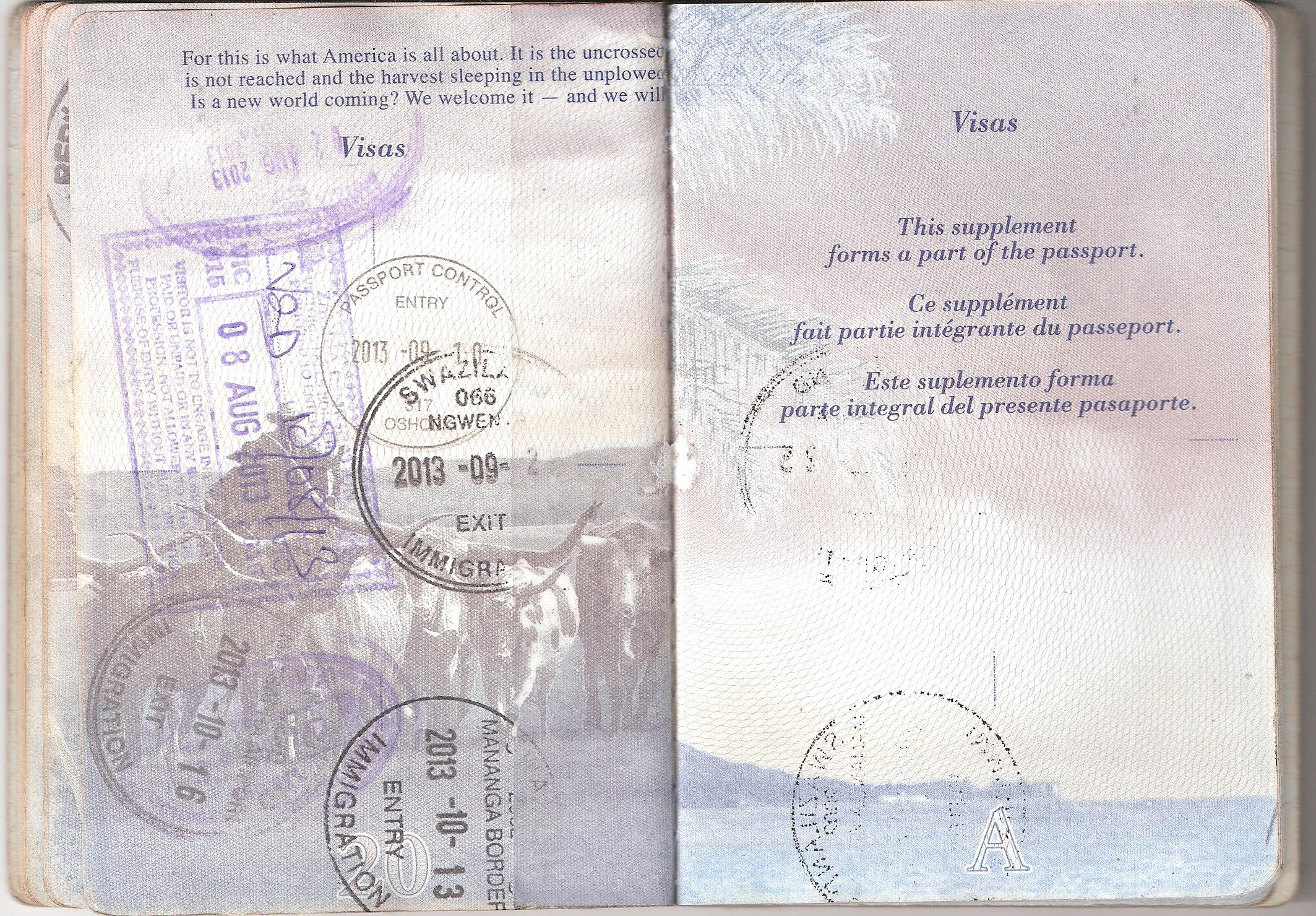 Extra pages added to a US passport, along with immigration stamps from Swaziland, Zambia, and South Africa.